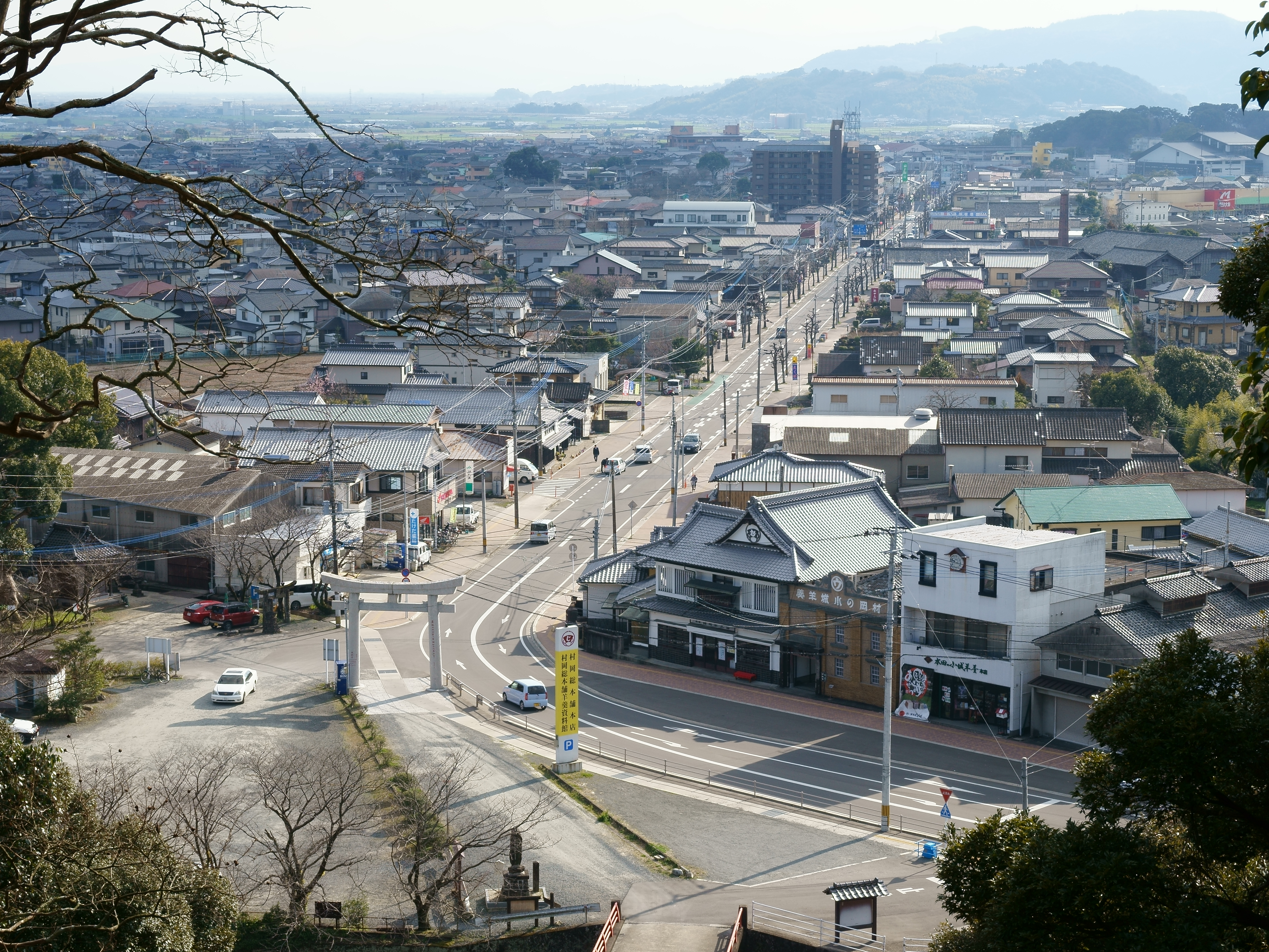 A cityscape of entry street of Suga Shrine in Ogi city, taken from the front of shrine's worship hall.